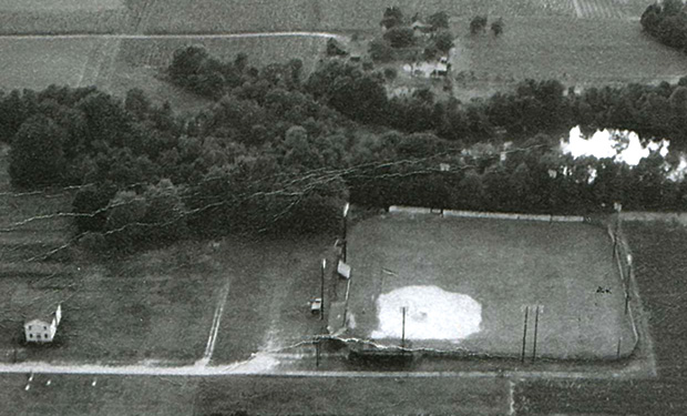 Approximately 1952 aerial photograph of Deltaville Ballpark